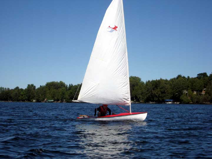 Banshee Dinghy sailing in light wind